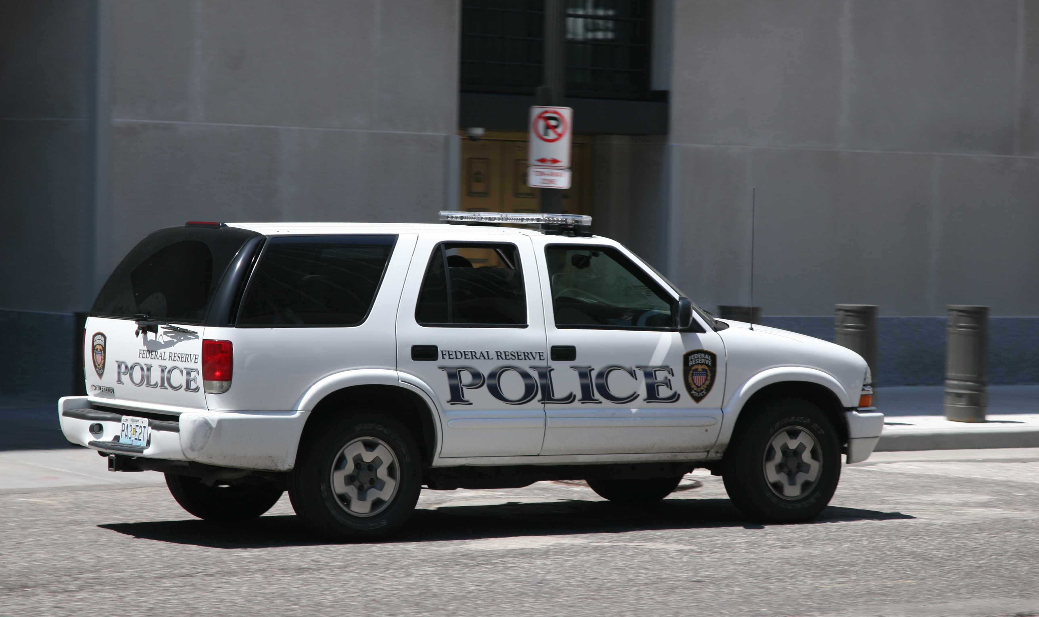 Federal reserve police car, St. Louis, MO